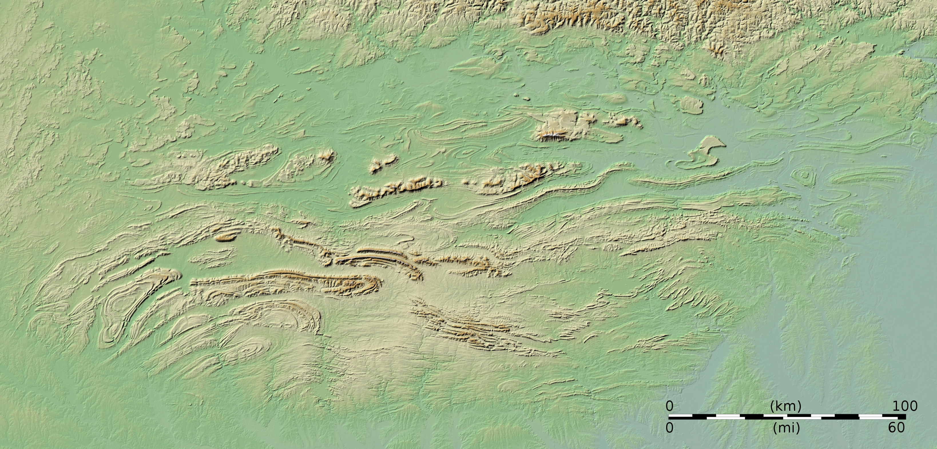 Color shaded relief of the Ouachita Mountains in Arkansas and Oklahoma showing only the topography. The highly dissected Ozark Plateau lies to the north across the valley of the Arkansas River, and the Mississippi aluvial plain lies to the east. This map uses projection UTM zone 15n (EPSG 26915).